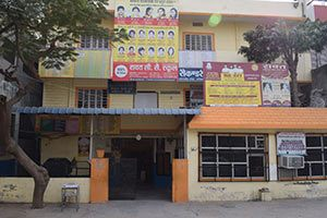 Rawat Senior Secondary School